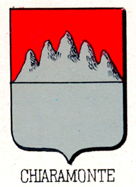 Coat of arms of Chiaramonte (or Chiaromonte) family from Sicily